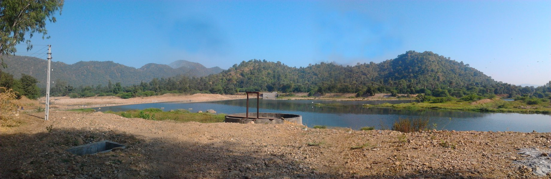 Panoramic view of a lake within polo forest